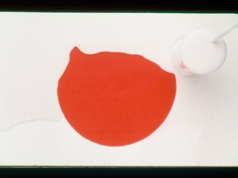 First Scene of MILK - 1997